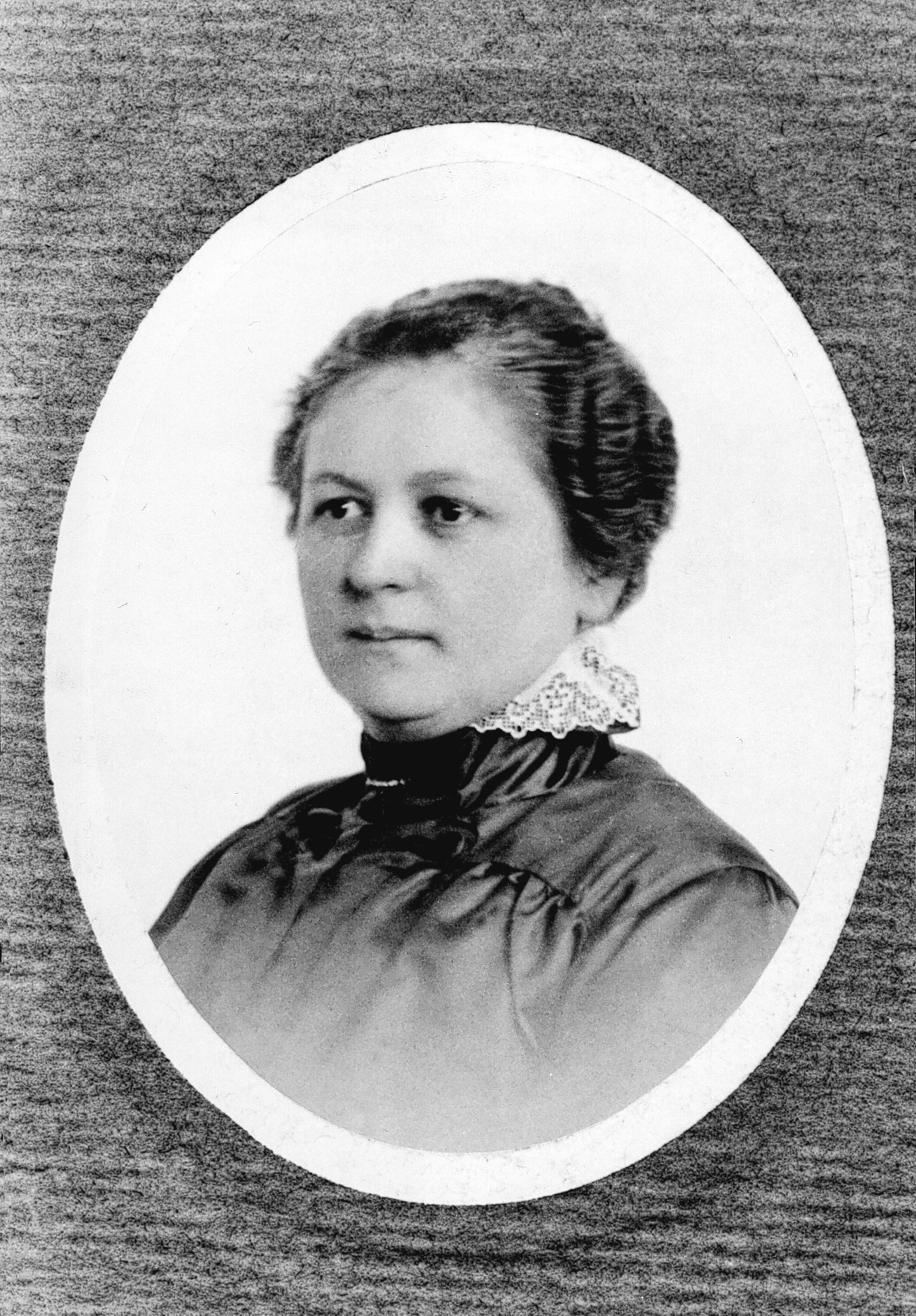 (Amalie Auguste) Melitta Bentz (January 31, 1873–June 29, 1950), born Amalie Auguste Melitta Liebscher, was a German entrepreneur, who invented the coffee filter in 1908.